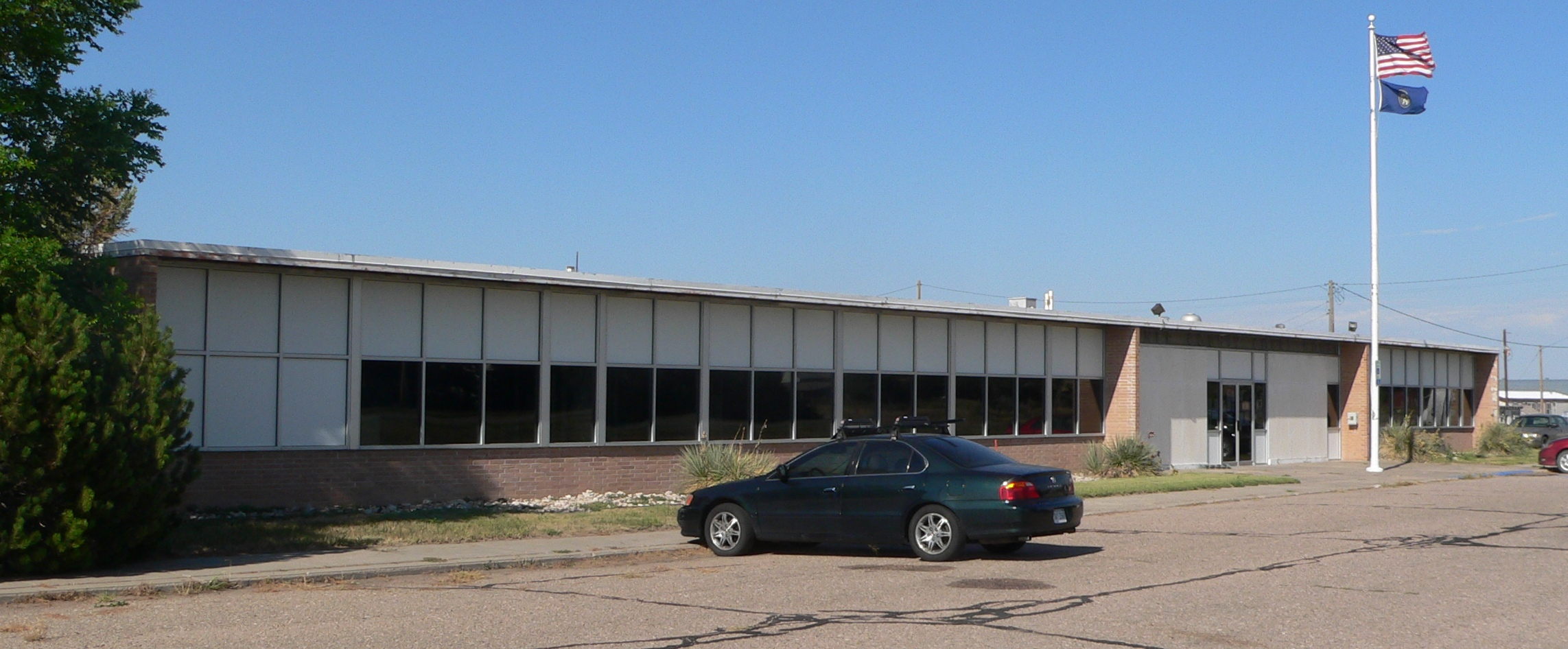 Banner County courthouse, on the northeast corner of State Street and Pennsylvania Avenue in Harrisburg, Nebraska; seen from the southwest. A plaque inside the building (photo uploaded) gives the construction date as 1957.